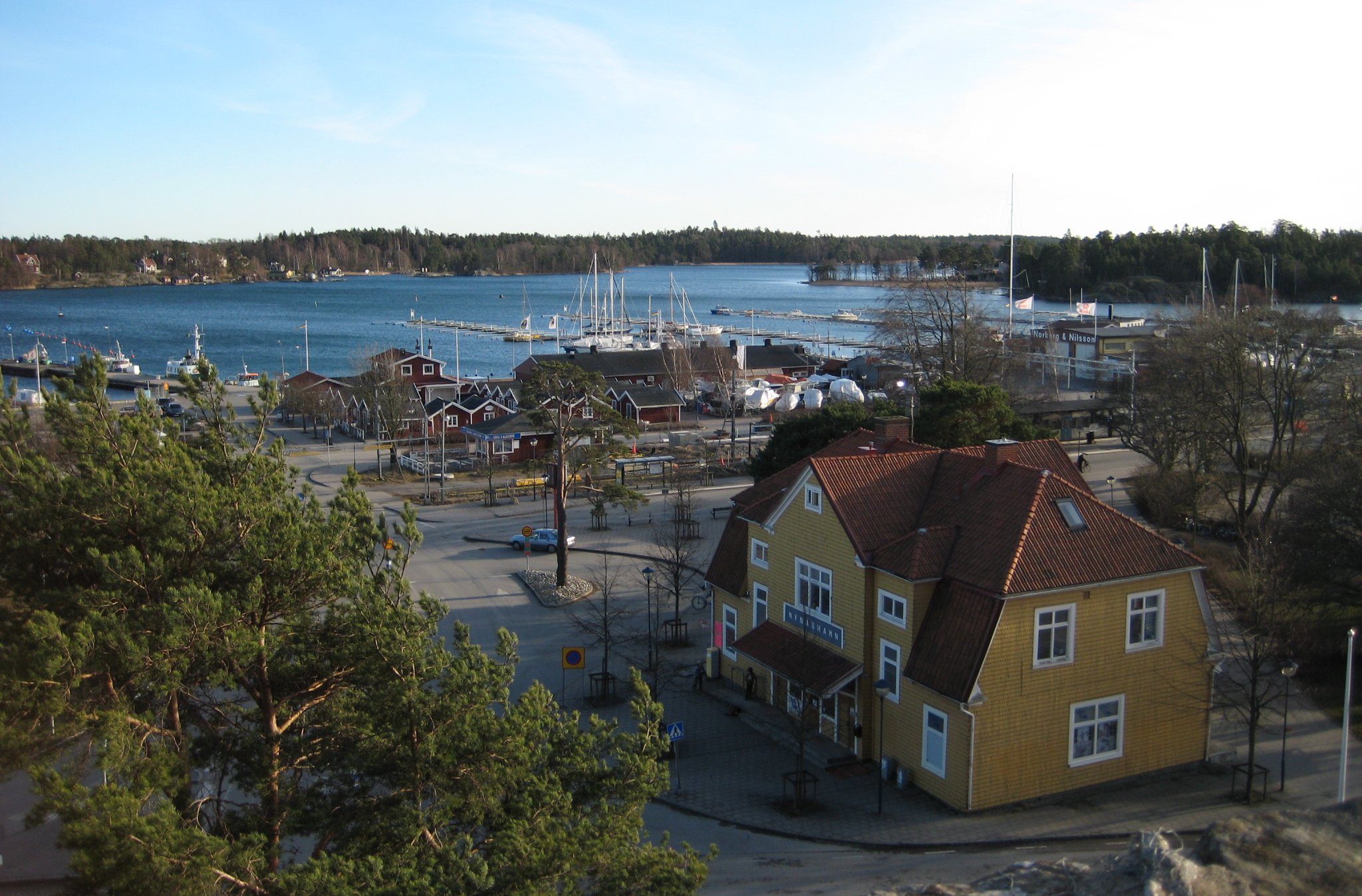 Railway station and harbour in Nynäshamn (Stockholm County, Sweden)